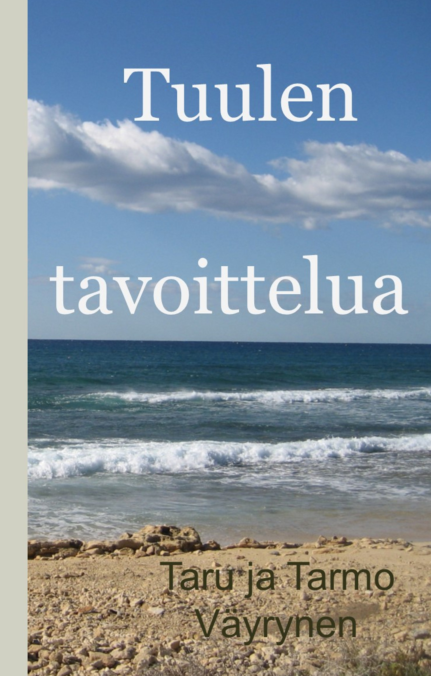 Tuulen tavoittelua